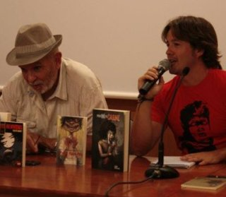 Ralph Barby and Miguel Aguerralde in Sitges